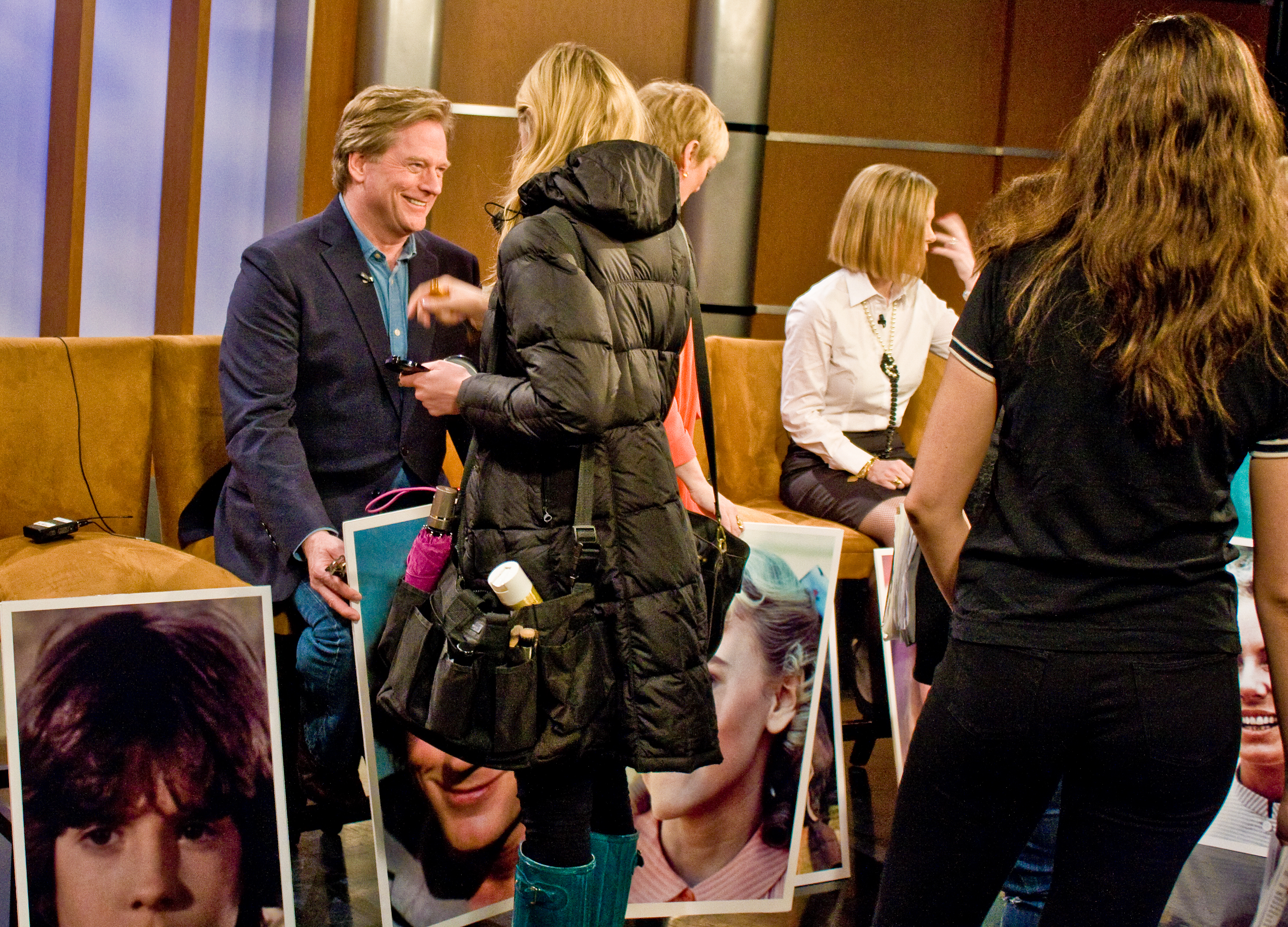 Almanzo Wilder actor Dean Butler is preparing to interview on New York's Fox 5 in a cast reunion piece. Circa April 30, 2014.